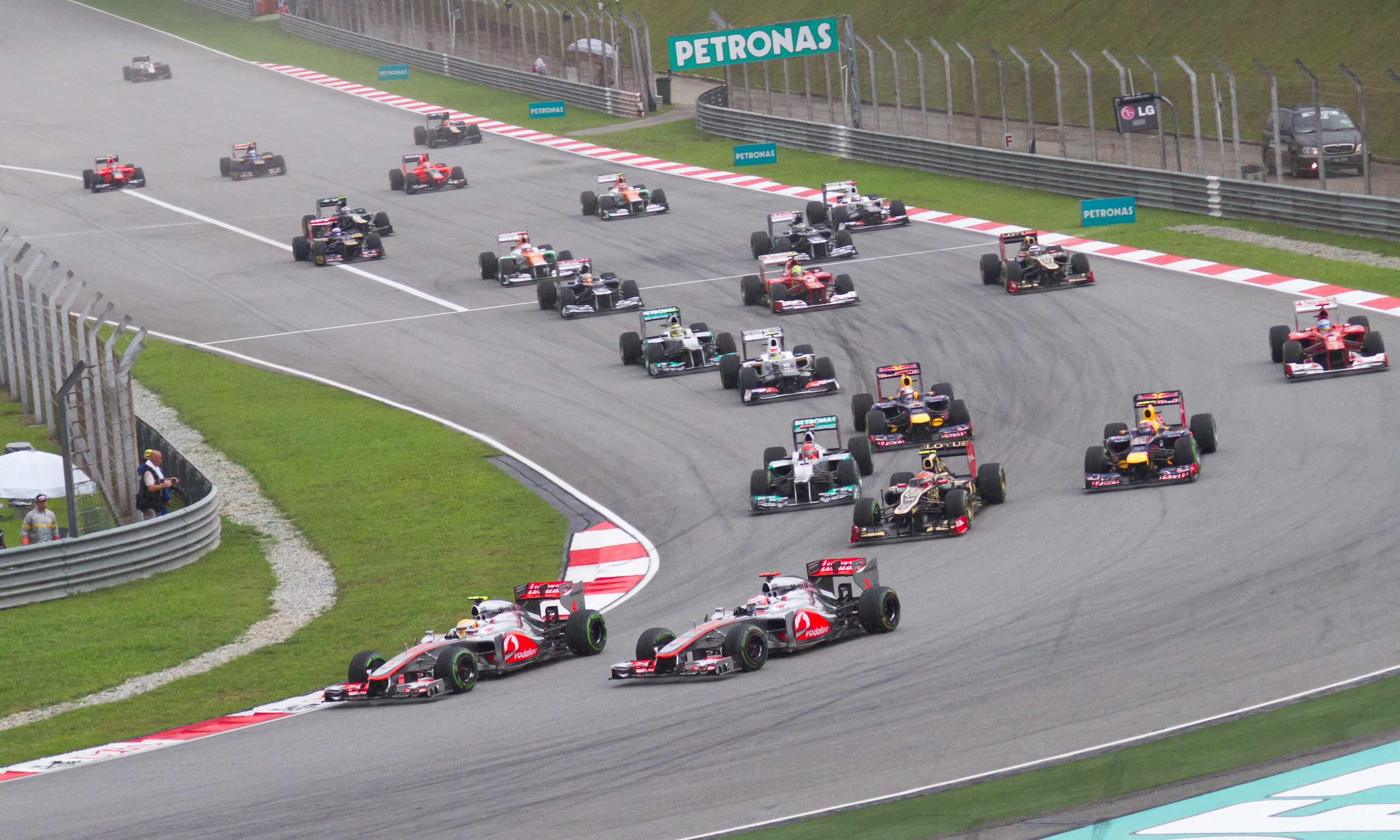 Formula One 2012 Rd.2 Malaysian GP: opening lap